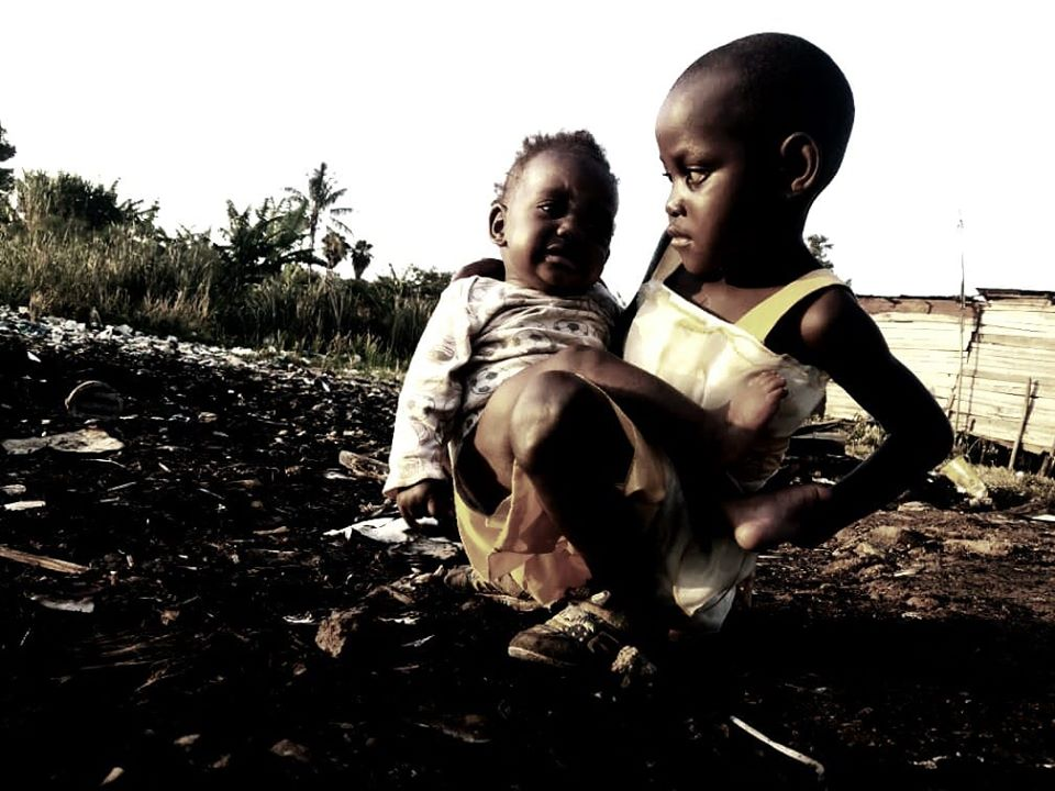 I found a young sister taking care of his little brother in a slum area of Ggaba landing site in the absence of their mother who had gone to look for money to survive and I had to take this photo as into my archive because I also grew up with my elder sister who used to take care of us in absence of our parents and she did a good job This is an image with the theme "Africa on the Move or Transport" from: Uganda